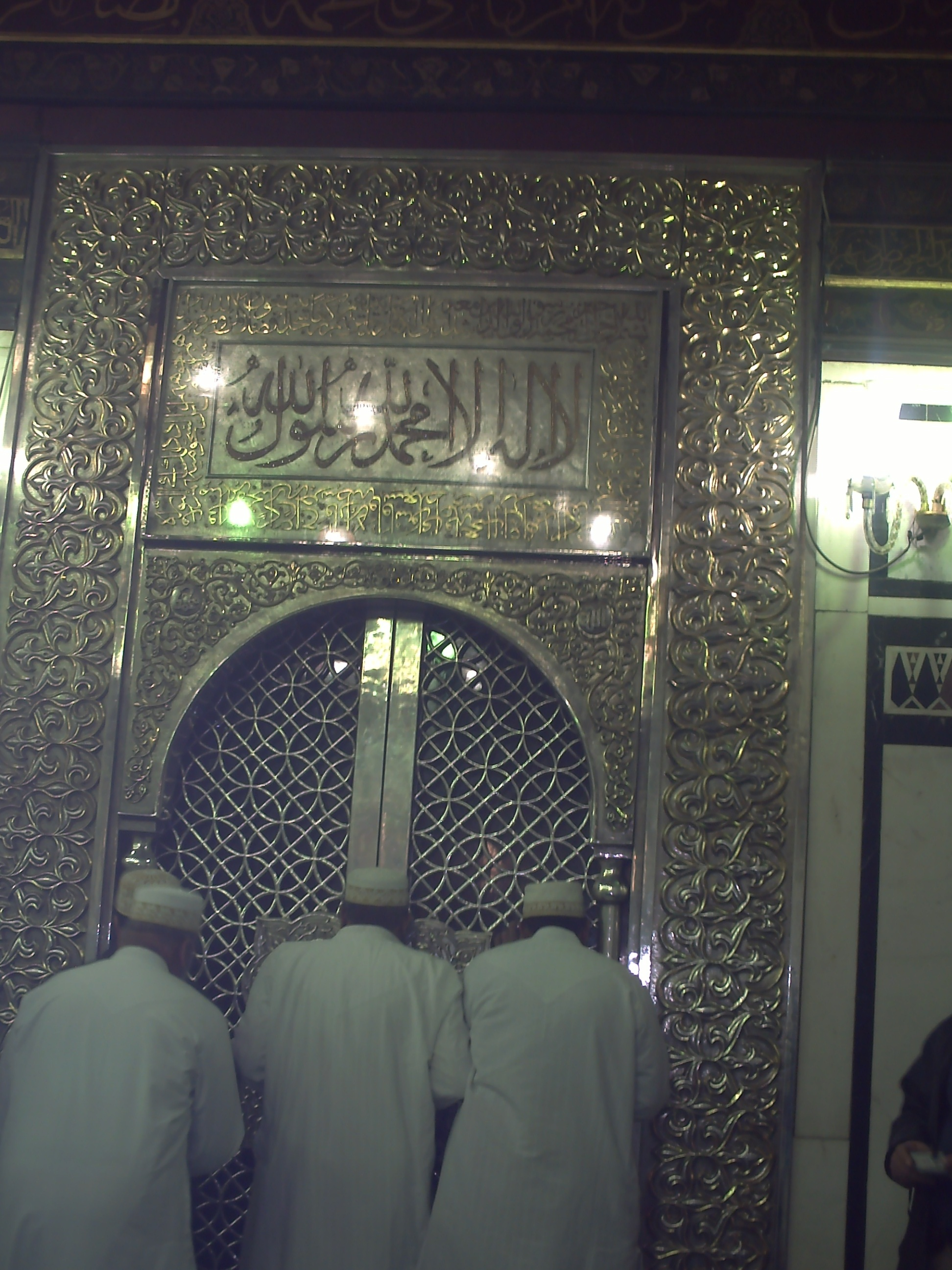 Mukalafat-al-Rasool,near rasul husain cairo - Fatimid Imam era, Cairo, Egypt, 11 to 21st Imam, 881/909 AD-1138 AD